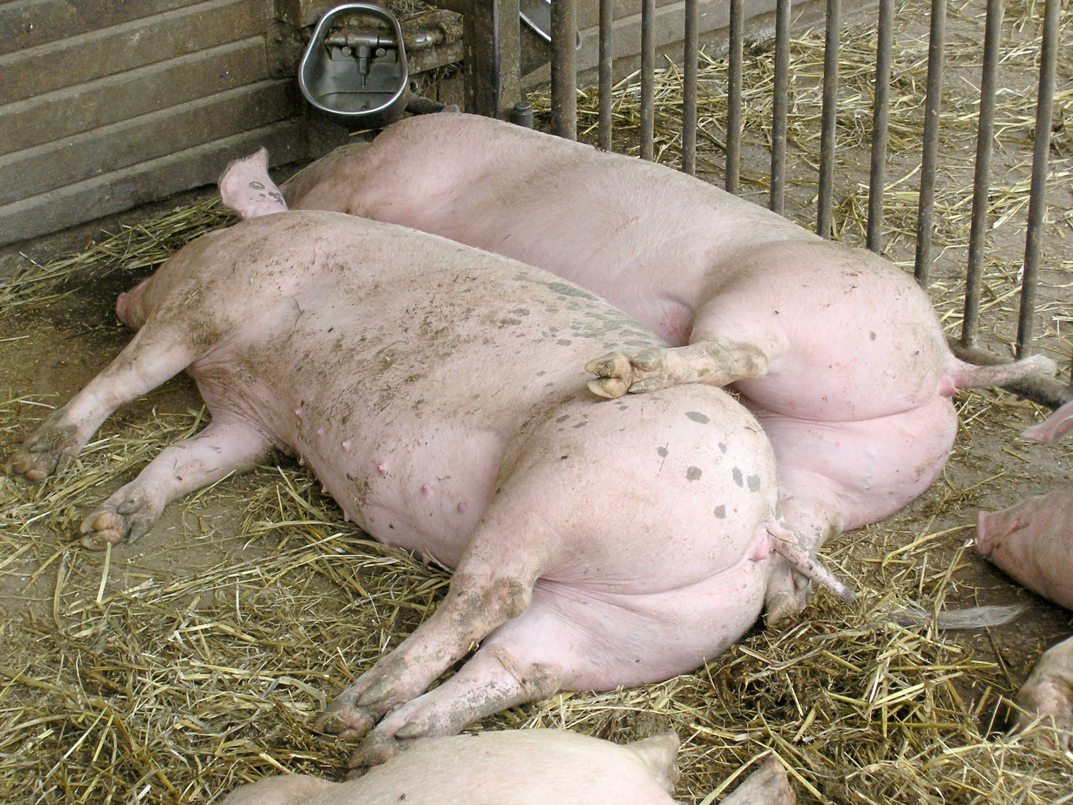 Name: Sus domesticus, two females in species-appropriate animal husbandry, resting. Location: Dortmund, NRW, Germany